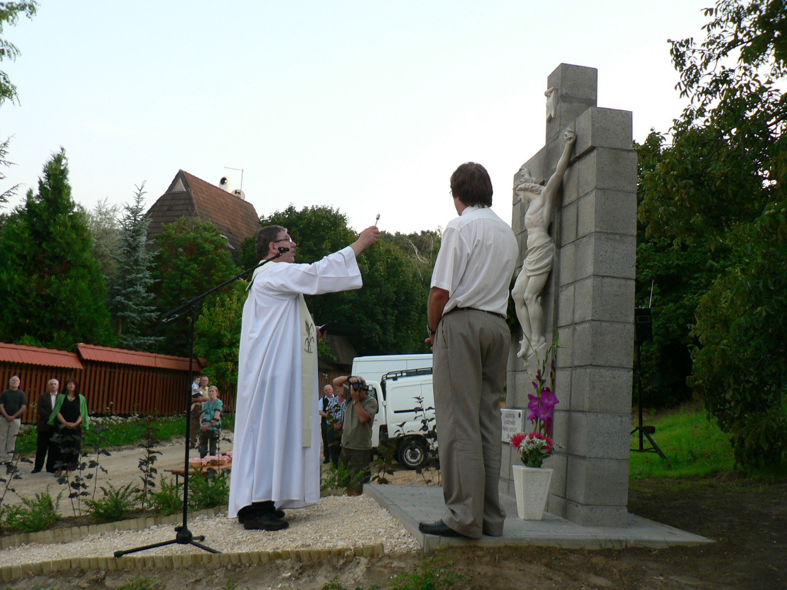 Keresztavatás a Hutweide "bejáratánál"